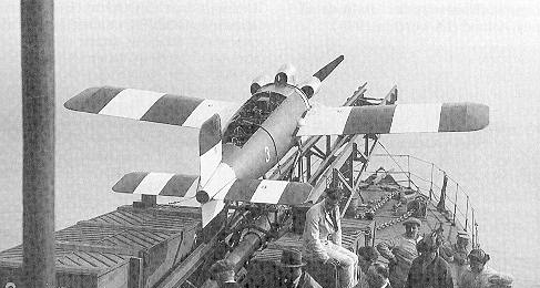 The RAE Larynx (Long Range Gun with Lynx Engine) missile on cordite-fired catapult of destroyer HMS Stronghold, July 1927. The man on the box is Dr. George Gardner; later Director of RAE.